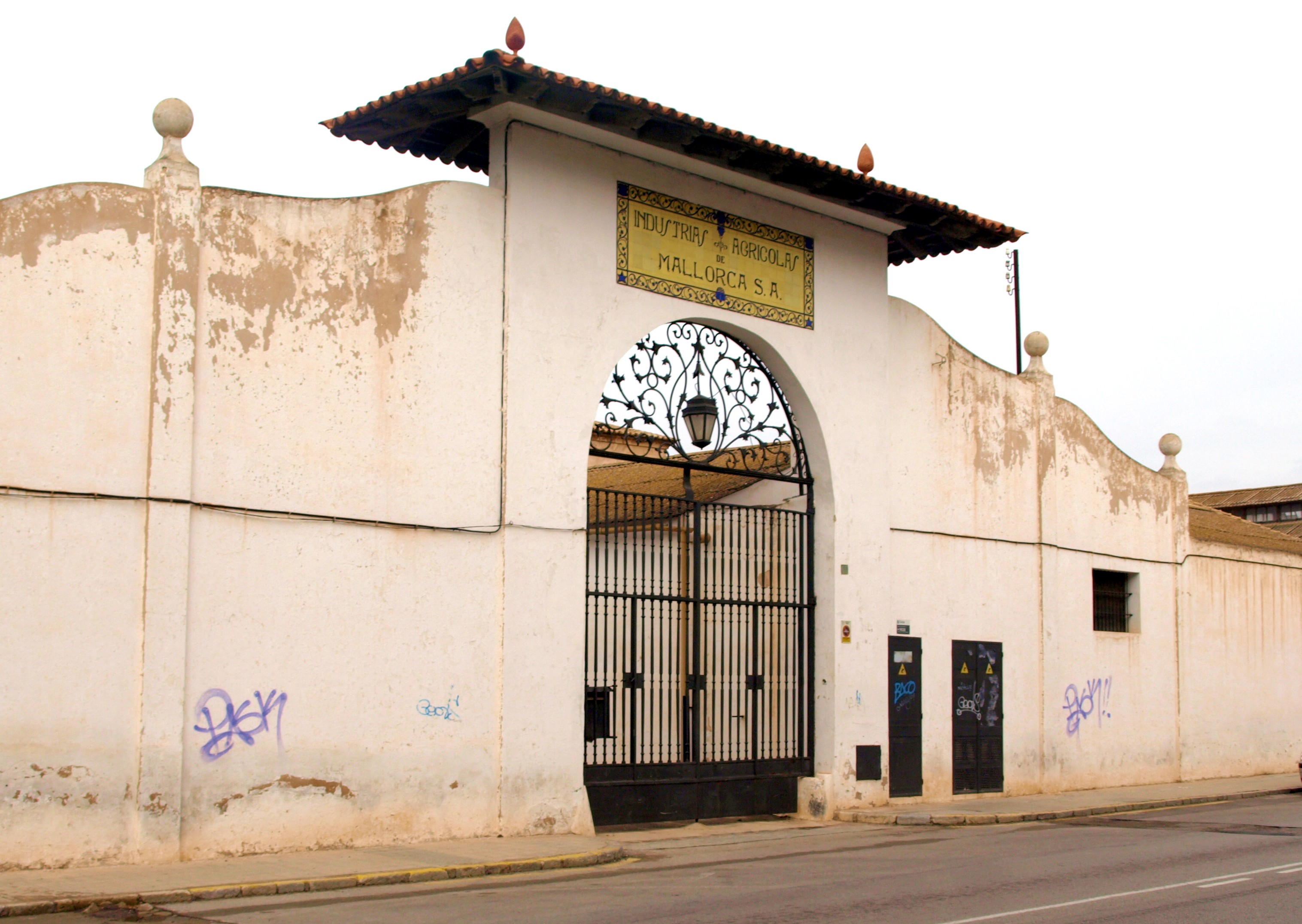 Agricultural Industries of Mallorca "S'Esperitera", Av Antoni Maura, Pont d'Inca, Marratxí